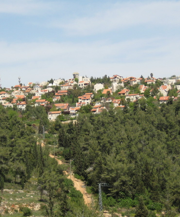 Har Adar (view from west), with Harel Brigade Memorial